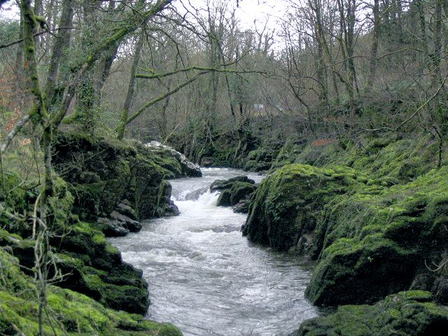 Waterfall on Afon Sawdde This is the river Sawdde flowing north towards Llangadog. At this point there are roads either side of it: a minor one on the left bank; and the A4069 to Brynaman on the right. The whole length of the riverbank here is composed of upended strata of rock. You can drive past thousands of years of geology without even realising it.